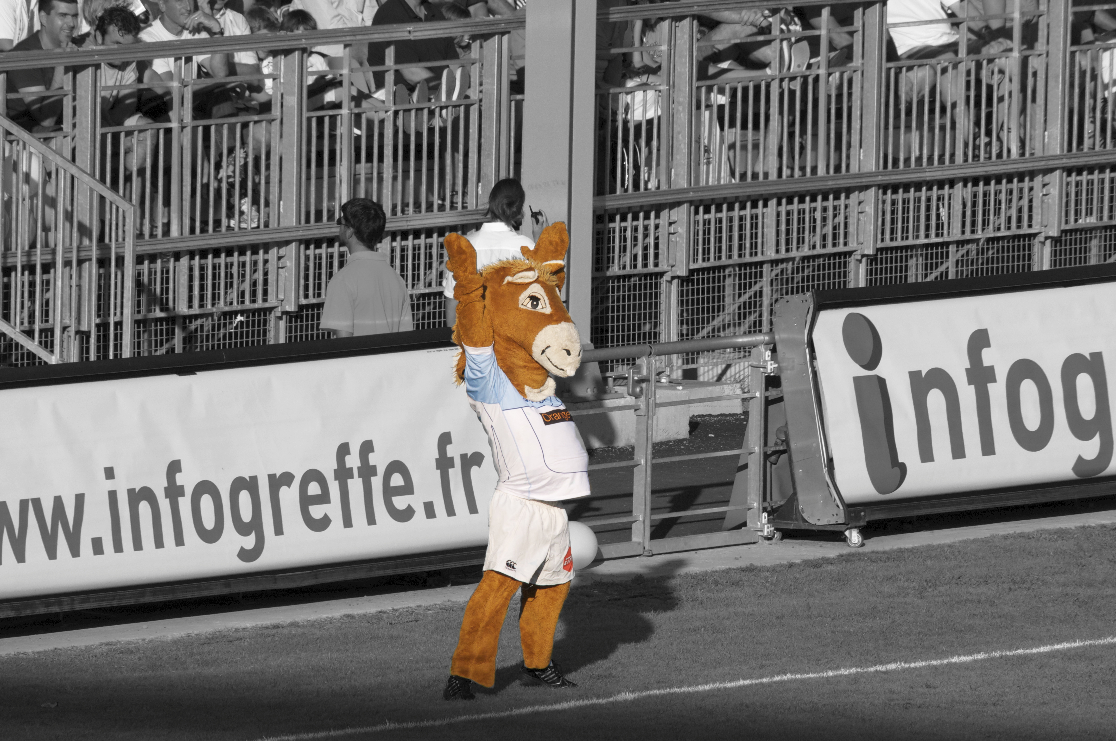 Pottoka, mascot of the French rugby union team Aviron Bayonnais.